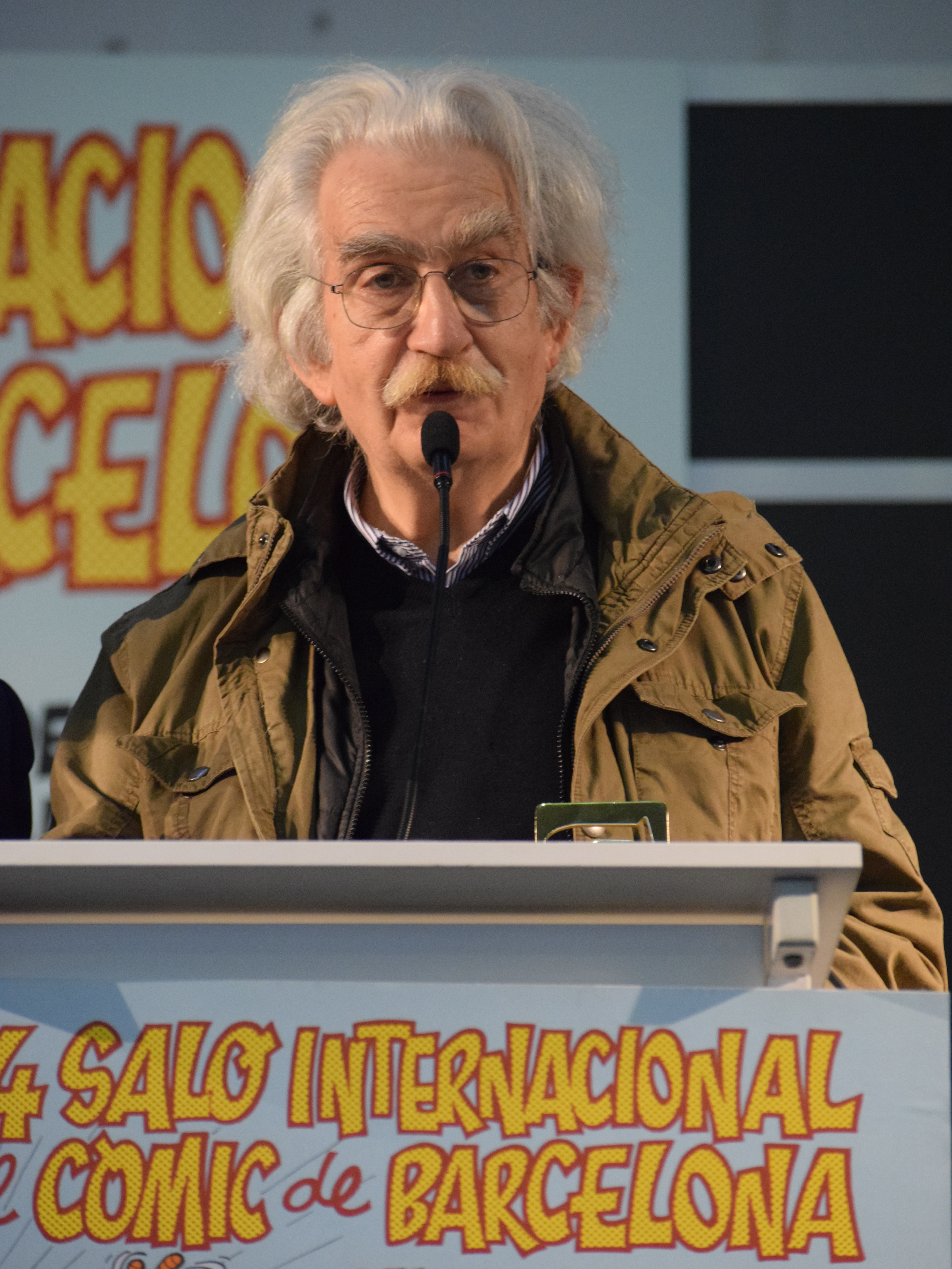 The italian comic writer Paolo Eleuteri Serpieri , author of Druuna, making a speech after having been awarded with an honorific prize at the Barcelona International Comic Convention, 2016.